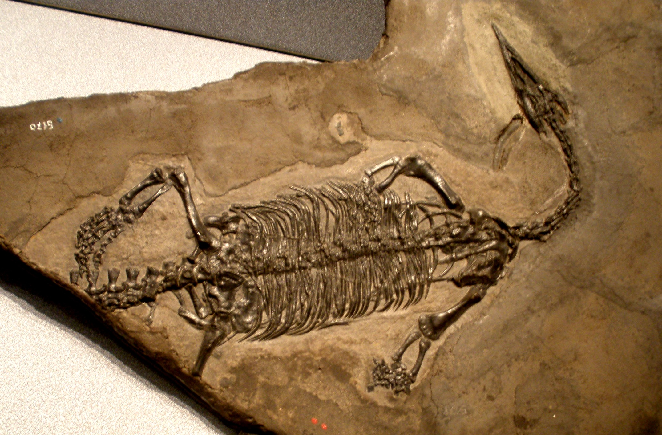 Took the photo at Museo di Storia Naturale di Bergamo